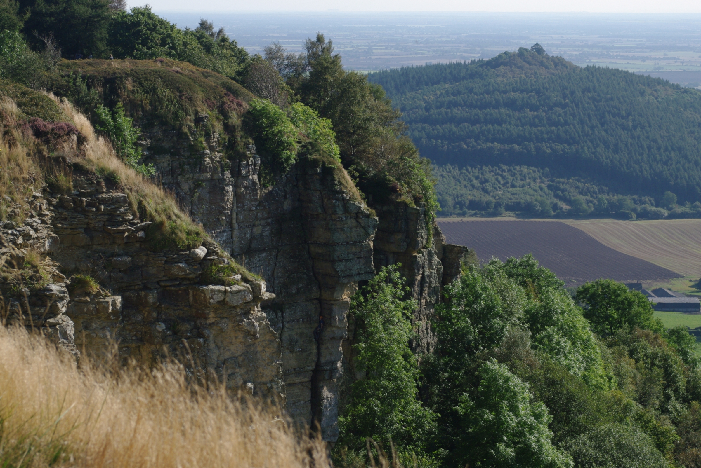 View from Sutton Bank with part of Sutton Bank, North York Moors